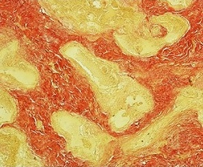 Angioleiomyoma with Van Gieson's stain, showing smooth muscle fibers in red and collagen fibers in yellow (magnification, x100).